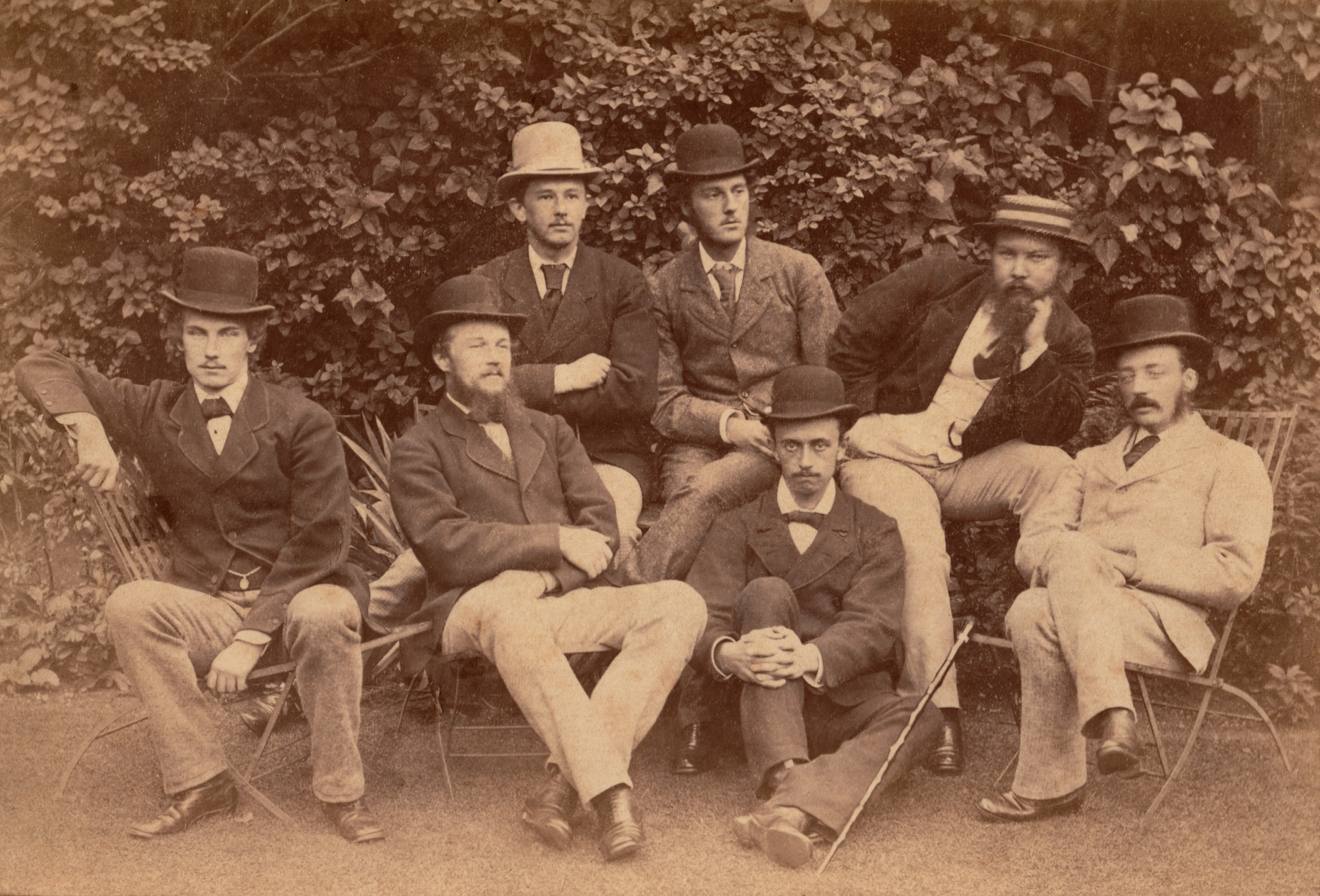 Shakespeare Society, Cambridge, 1873 Manuscript on margins of photograph: "Shakspeare [sic] Society. Long vacation 1873 GC Macaulay, BE Hammond, JG Butcher, AT Lyttelton, AH Grey, TO Harding, RC Jebb"